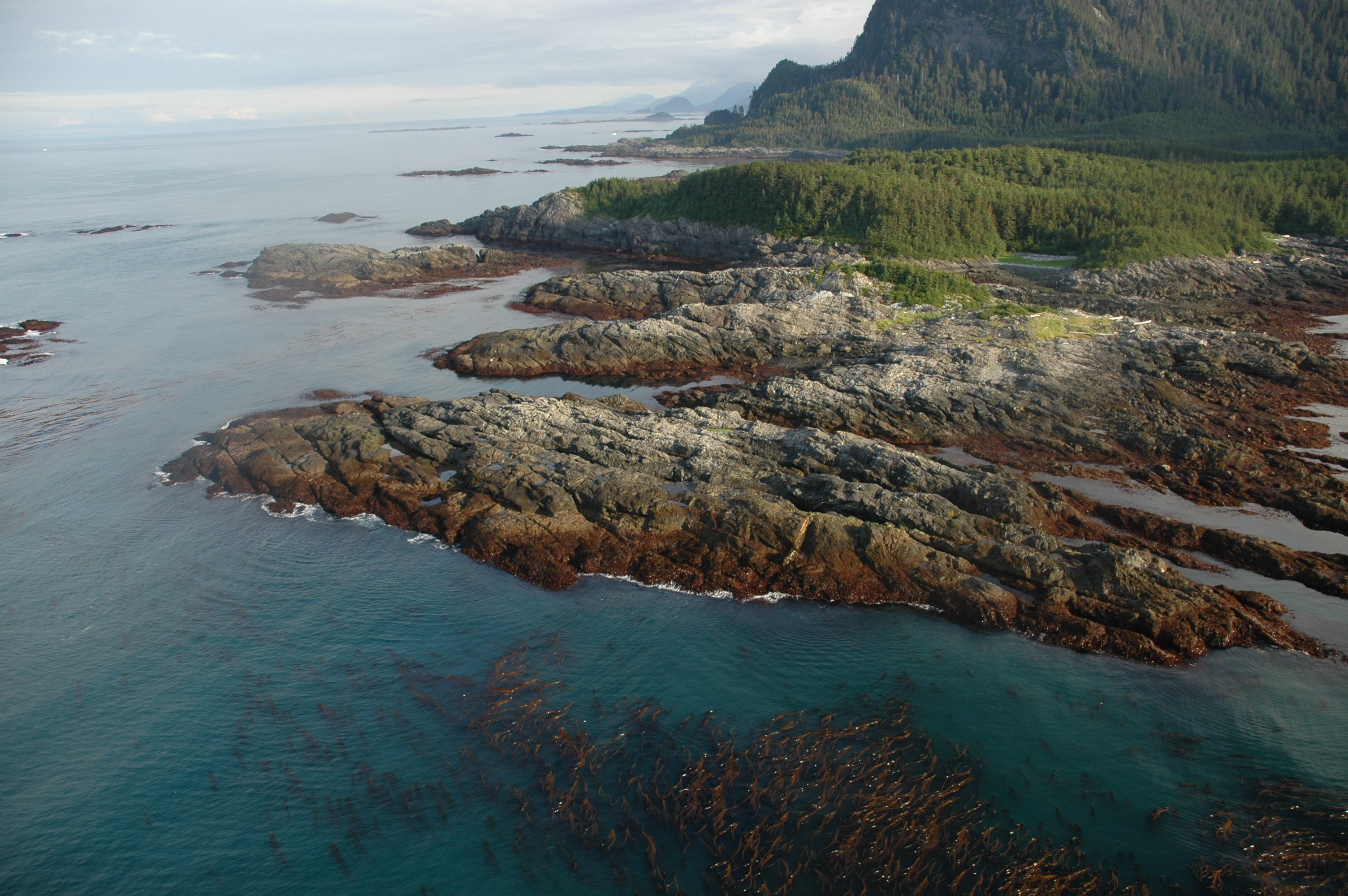 Aerial photograph. Looking to the north west from Cape Spencer, the northernmost entrance to Alaska's Inland Passage. Jointed igneous or metamorphic rocks show enhanced erosion along the predominant joint pattern. Algae covers the tidal zone of the bared rocks and kelp forests are seen offshore. Alaska, Cape Spencer.